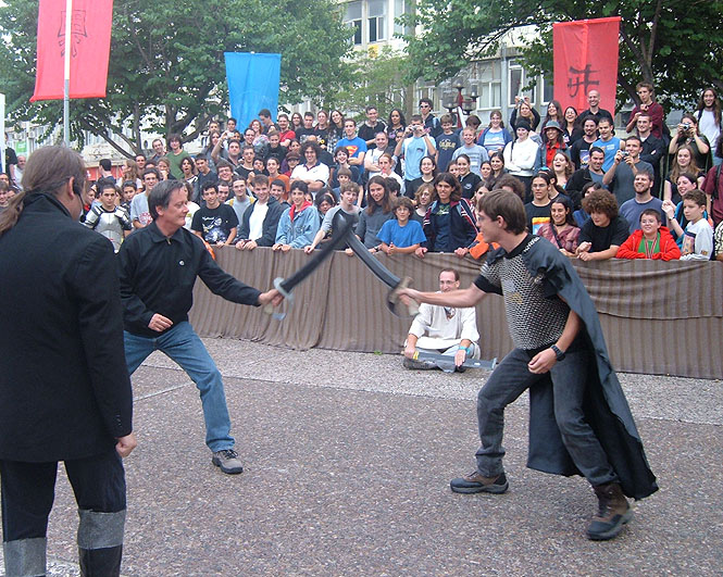 A fight at the "Koloseum" battle rong, featuring writer Tim Powers. ICON festival, 2005